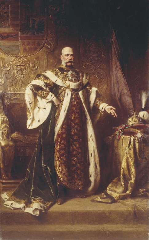 Emperor Franz Josef I of Austria-Hungary, wearing the robes of a Grand Cross Knight of the Royal Hungarian Order of Saint Stephen